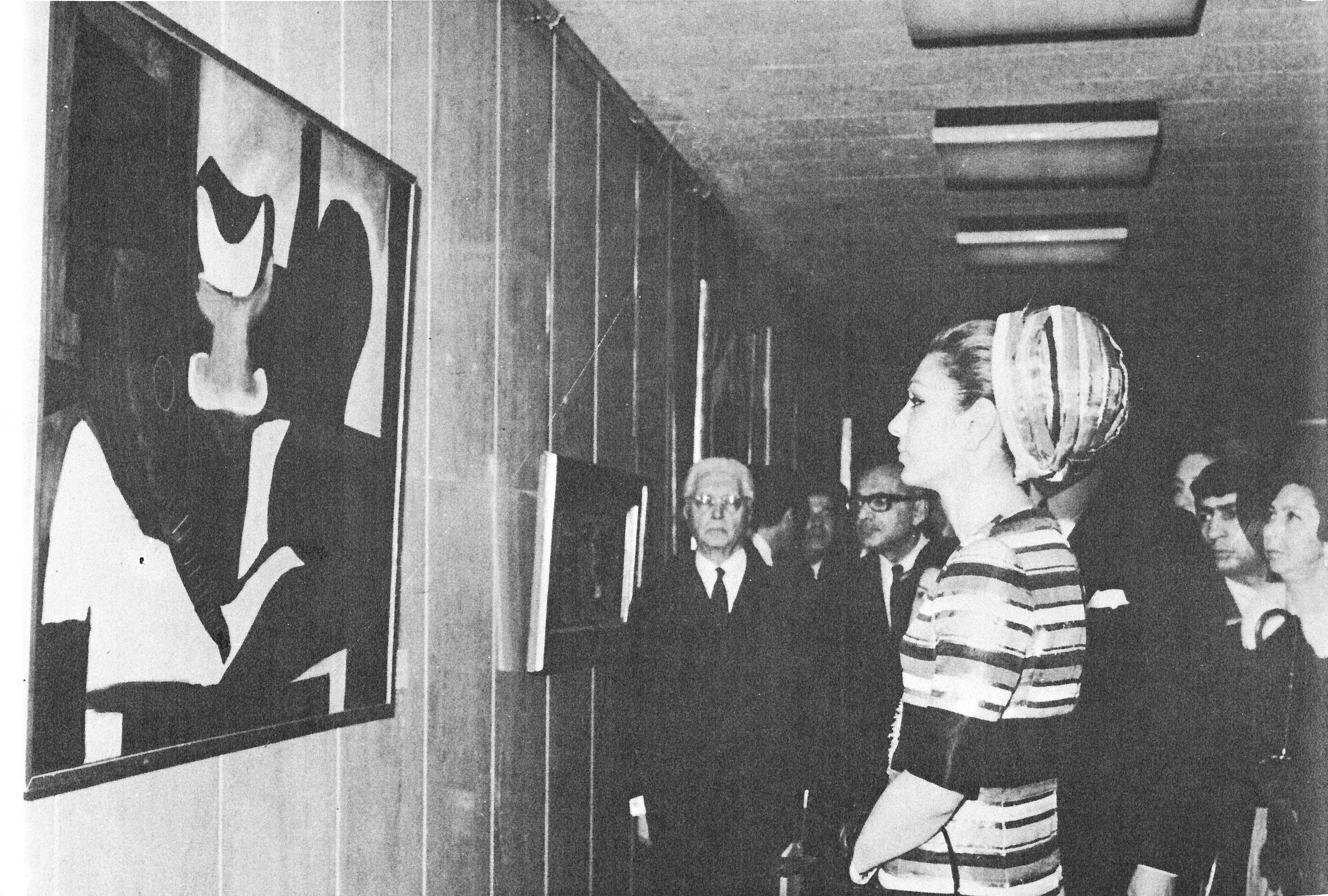 Shahbanu Farah Pahlavi visits an art exhibition in Tehran